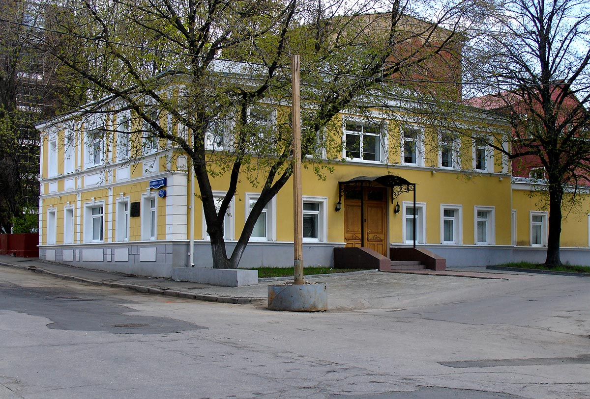 Mayakovsky Lane, Moscow. Here Vladimir Mayakovsky lived through most of his 1920s stay in Moscow, at the Lilya and Osip Brik apartment. The building housed Mayakovsky Museum for quite a while.